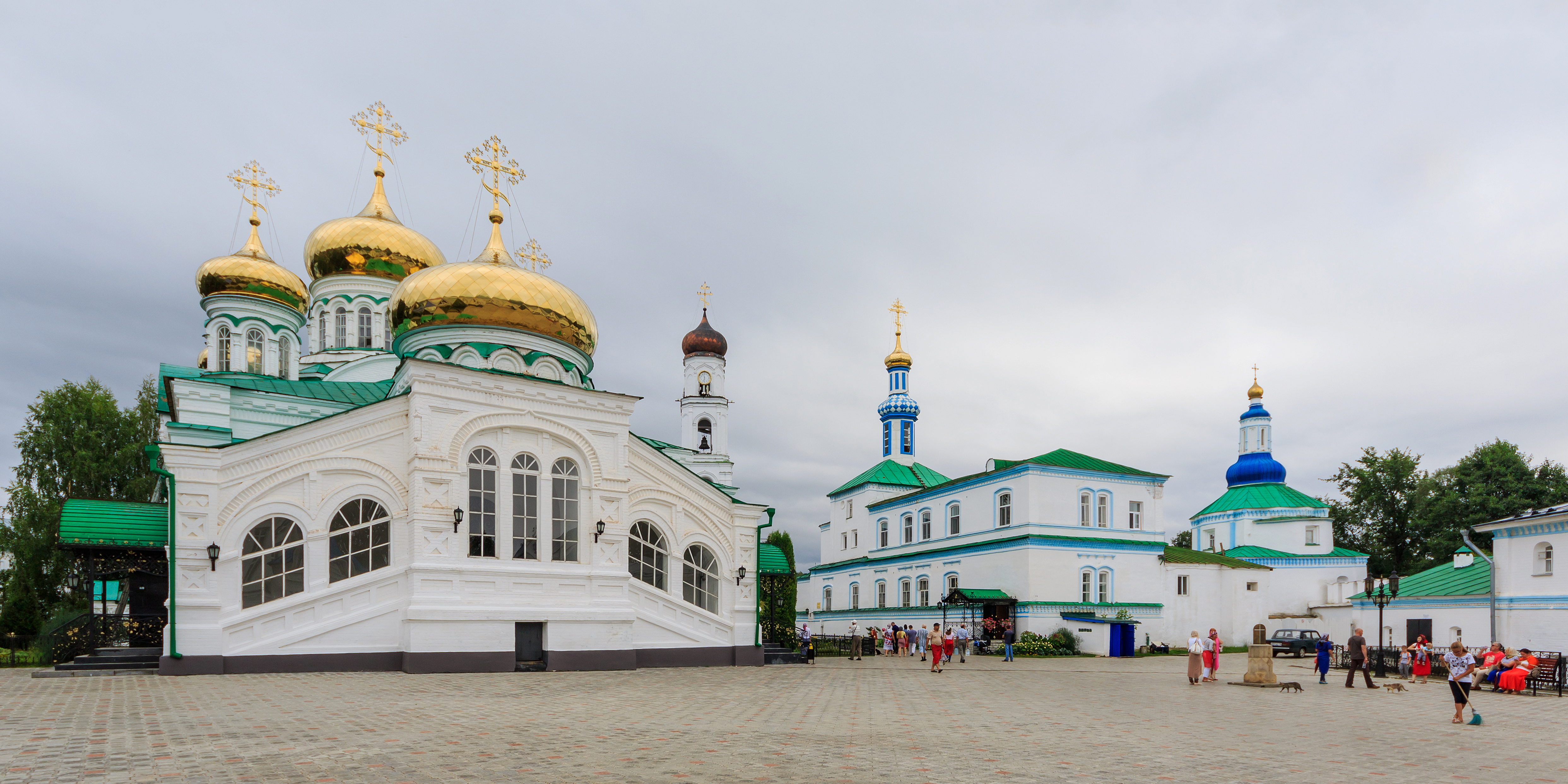 Raifsky Bogoroditsky Monastery in Zelenodolsky District, Tatarstan, Russia